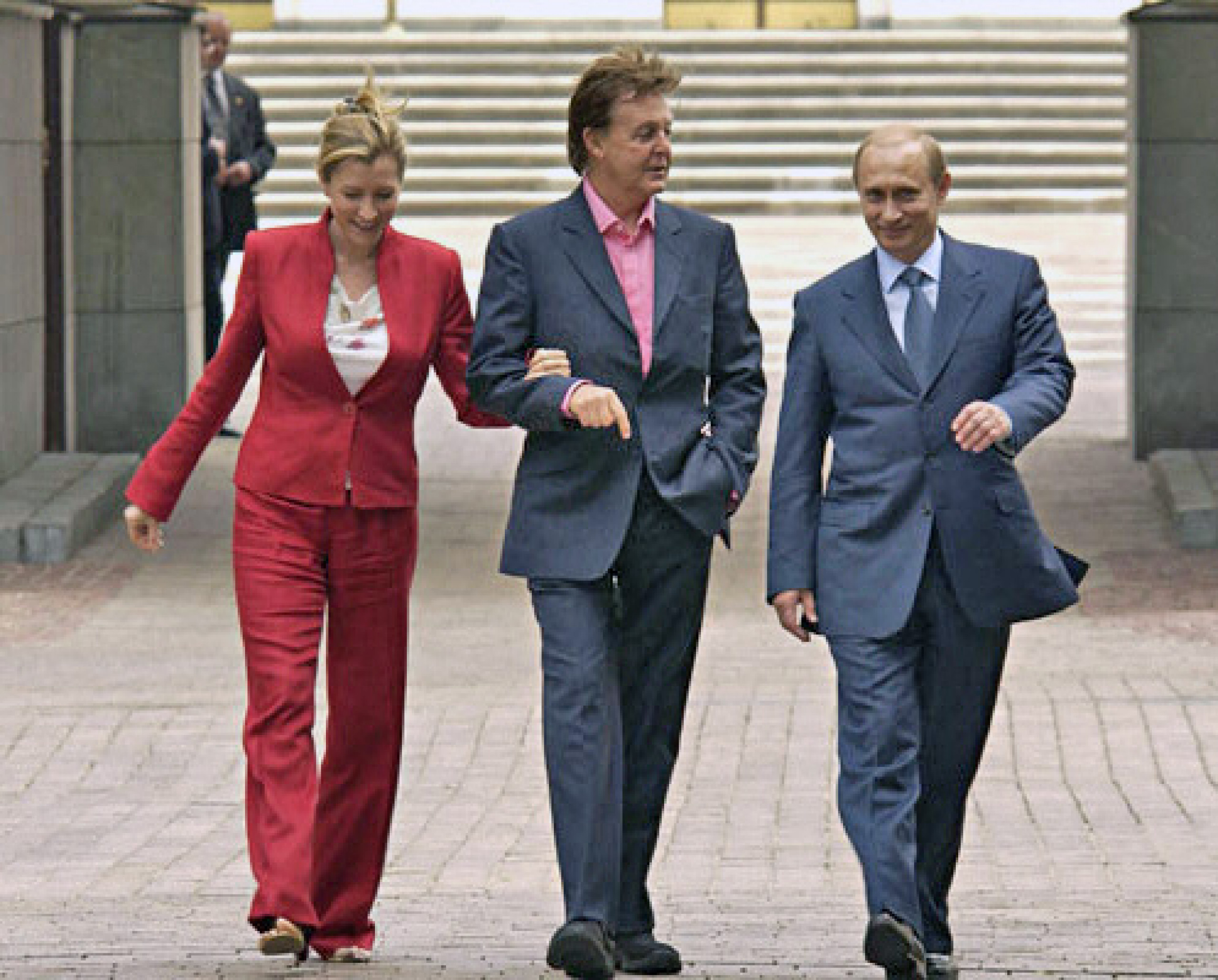 Russian President Vladmir Putin (right) meets with singer and composer Paul McCartney and his wife Heather, who have arrived in Moscow for the time, in the Kremlin.